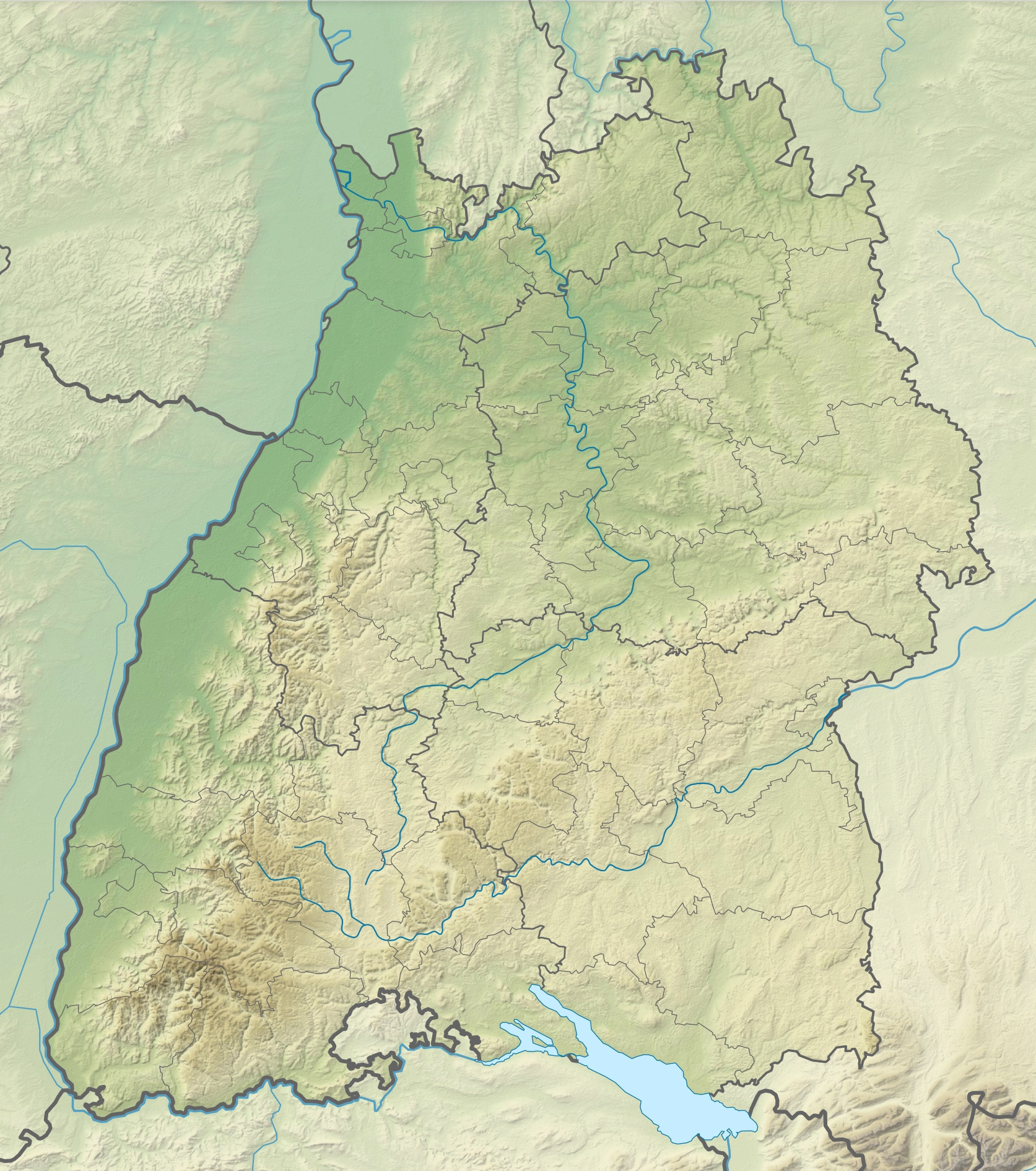 Physical Location map of Baden-Württemberg, Germany Equirectangular projection. Geographic limits of the map: N: 49.89926° N S: 47.42297° N W: 7.35786° E E: 10.63083° E